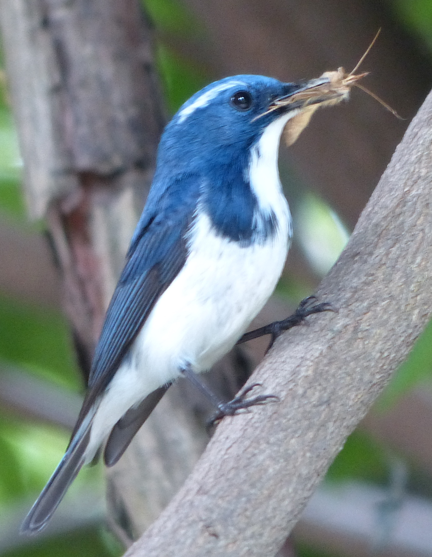 Male Ultramarine Flycatcher (Ficedula superciliaris) approaching its nest with feed in its beak